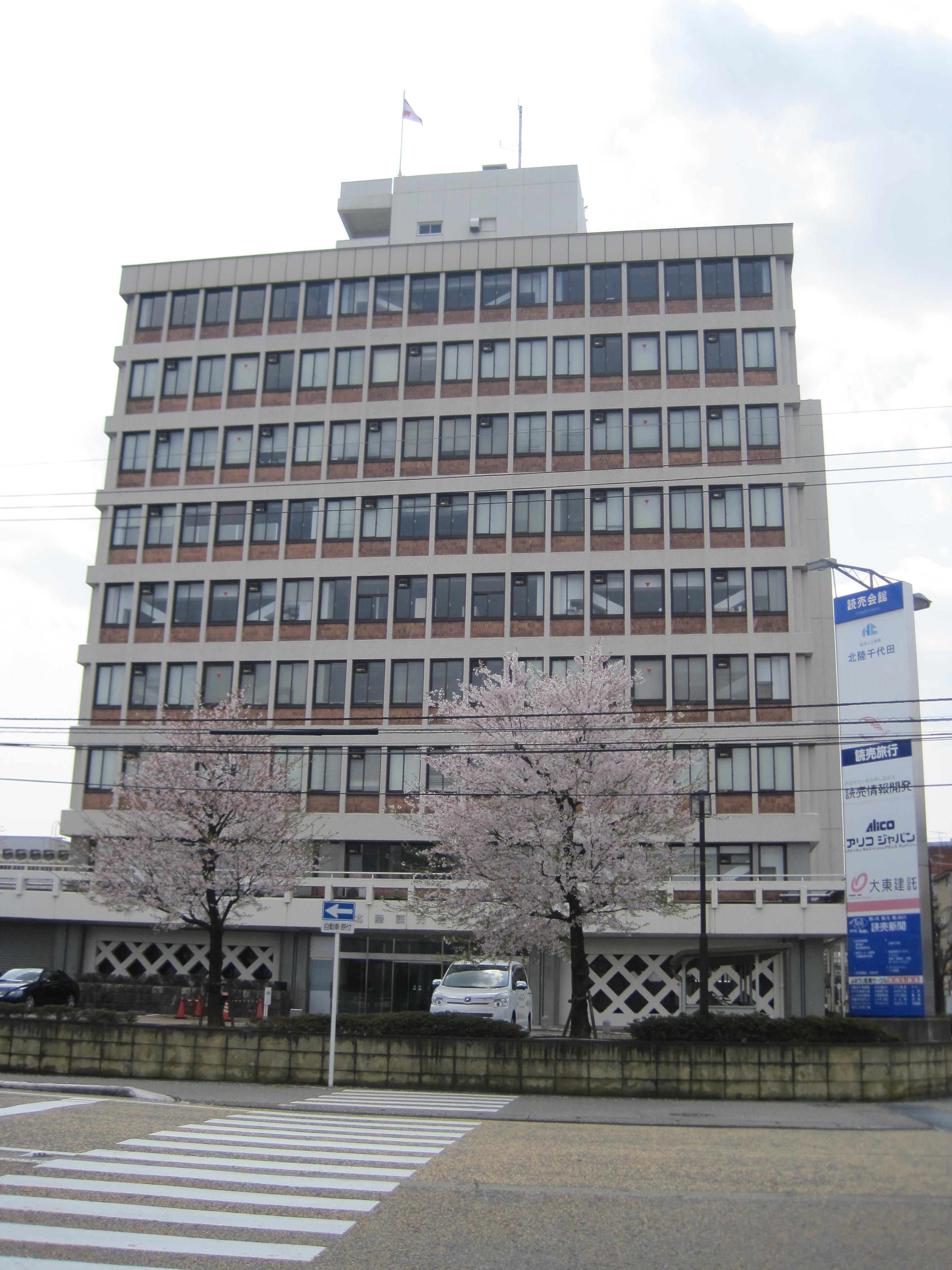 Yomiuri Shimbun Hokuriku Branch